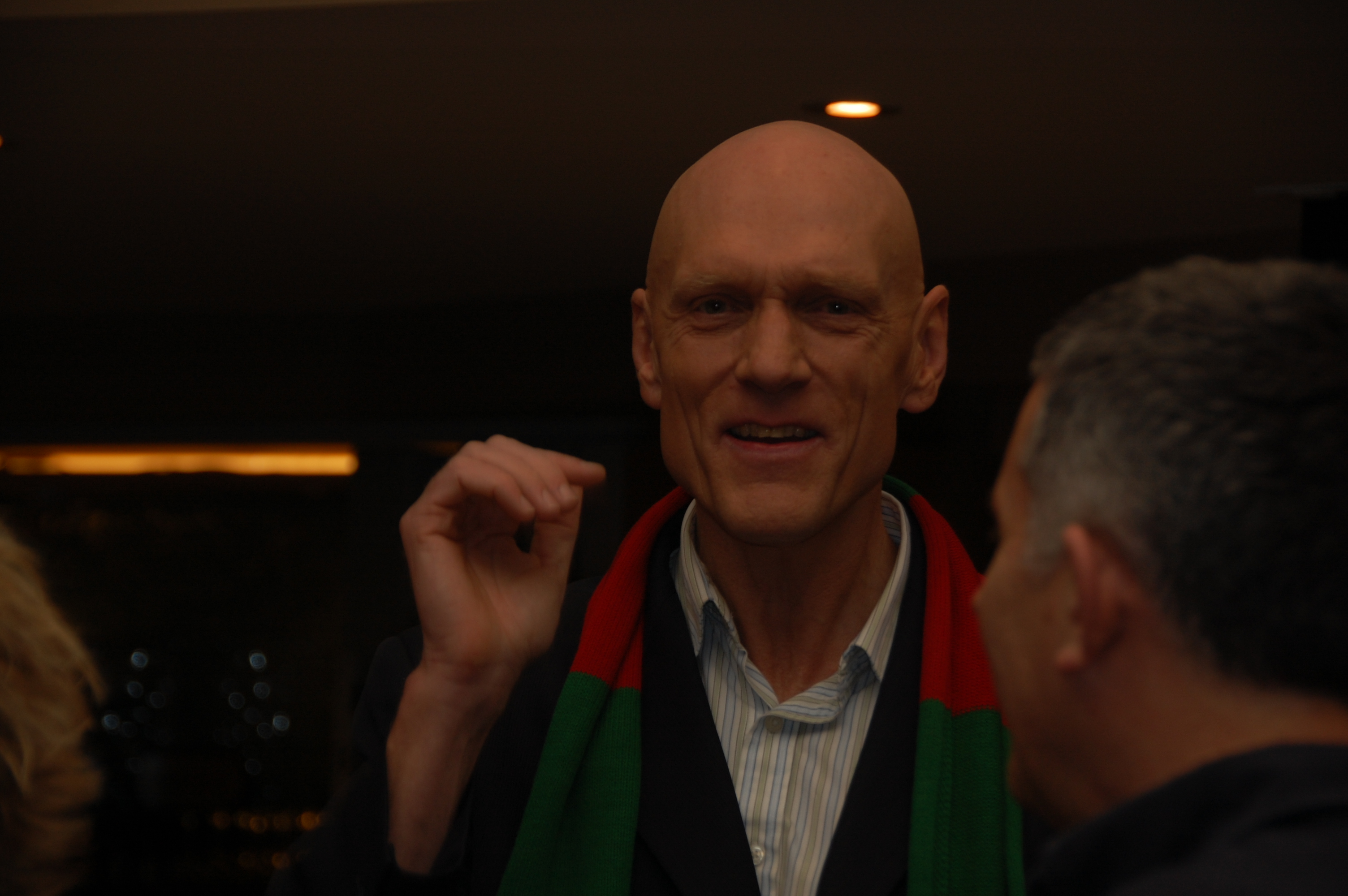 Peter Garrett, Labor MP and former Midnight Oils front man.